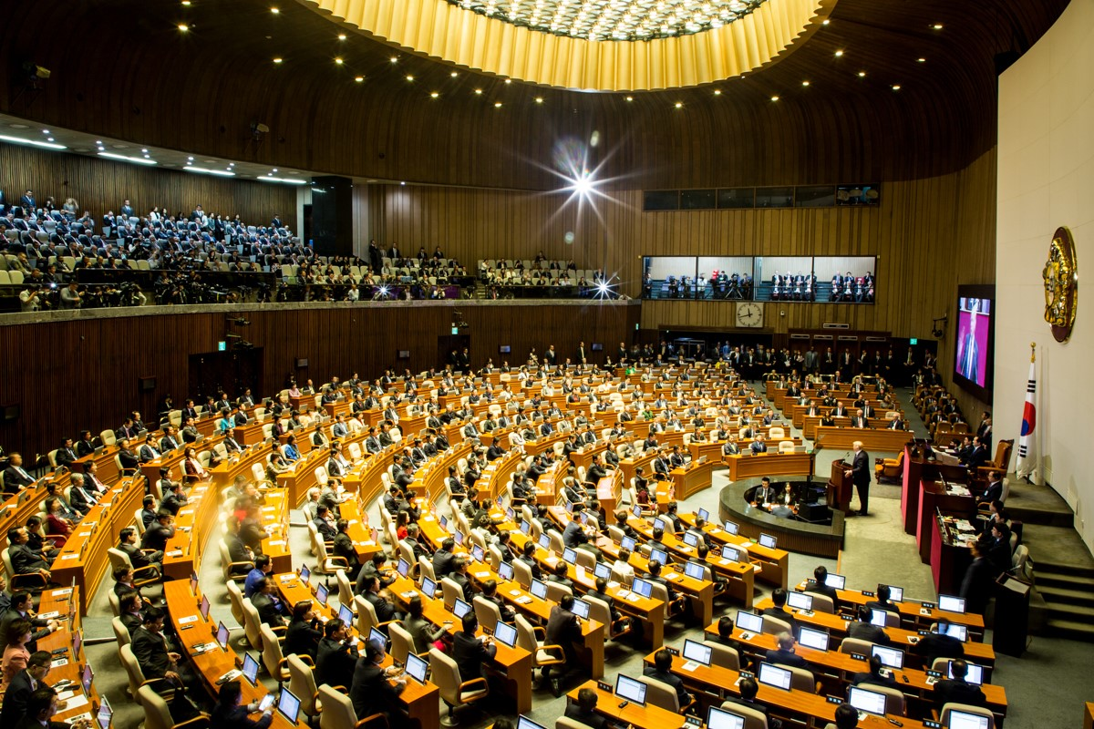 President Donald J. Trump addresses the South Korean National Assembly, November 8, 2017. (Official White House Photo by Shealah Craighead)